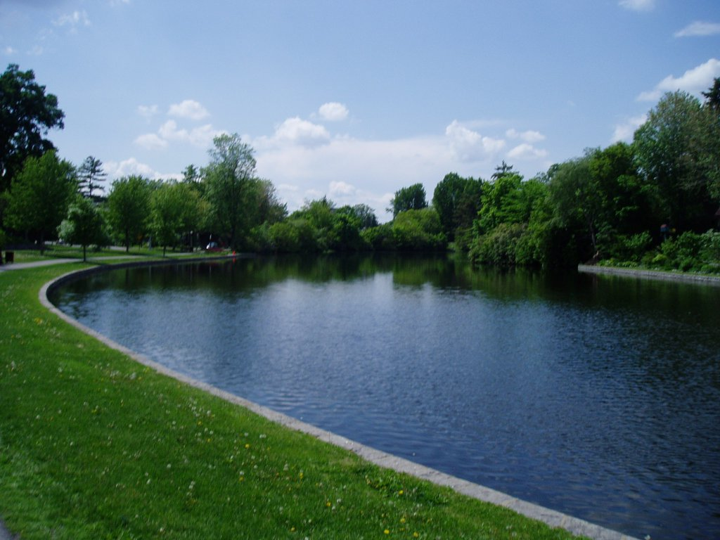 Taken by SimonP in June 2005